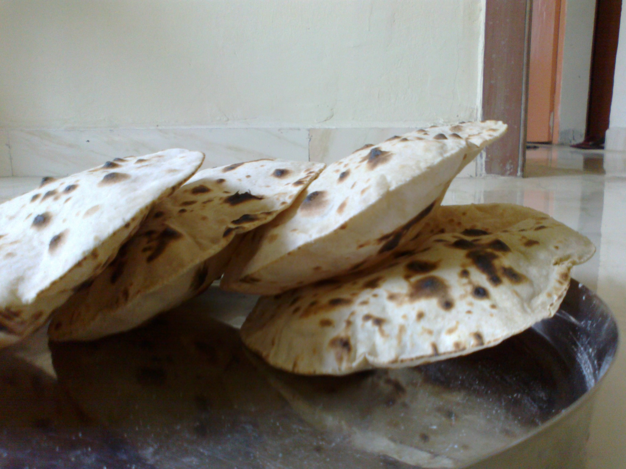 This Roti (also called Chapati) is prepared with wheat floor. After preparing circular shape with hands or 'Belan', it is first baked on Tava, and when it is hard enough to be picked with clip (chimta), then it is directly baked on fire flames. The specialty of the roti in picture is that it has not flatten even after cooling.